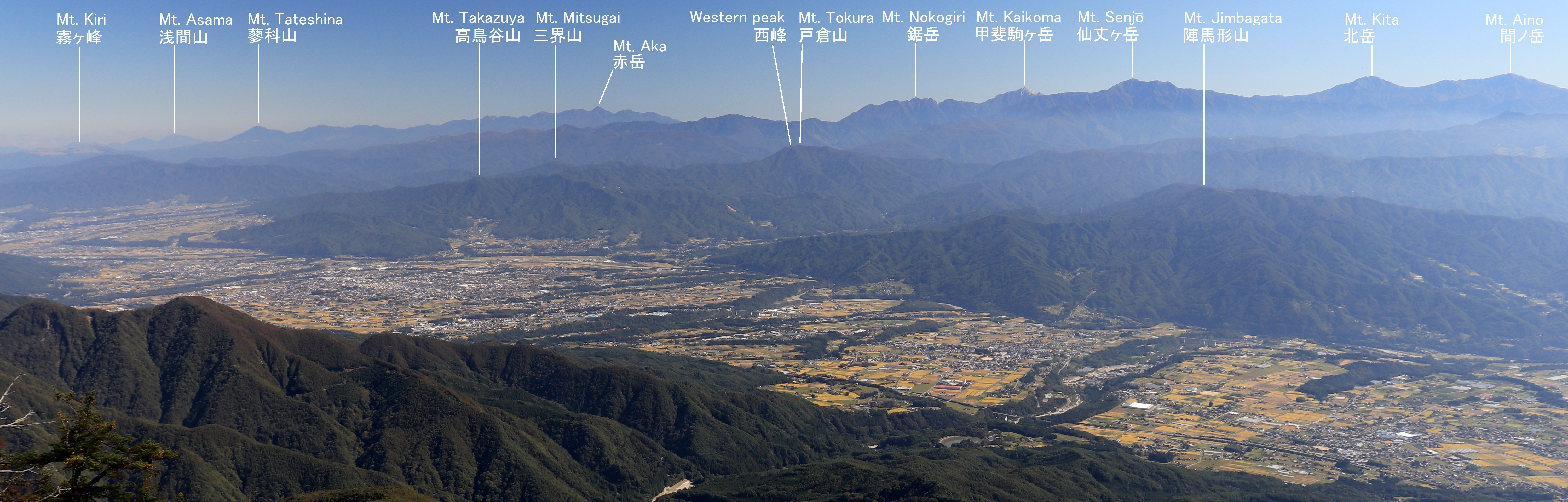 Ina Basin, Ina Mountains and Akaishi Mountains seen from Mount Eboshi in Nagano Prefecture, Japan.